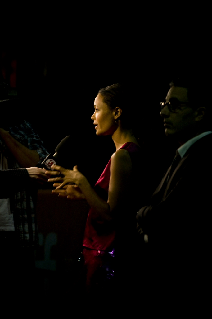 At the premiere of "Vanishing on 7th Street", directed by Brad Anderson, during the Toronto International Film Festival, 2010.